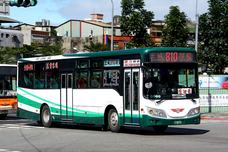 SanchungBus 810 Tucheng Huilong 118-FS Isuzu LT134P